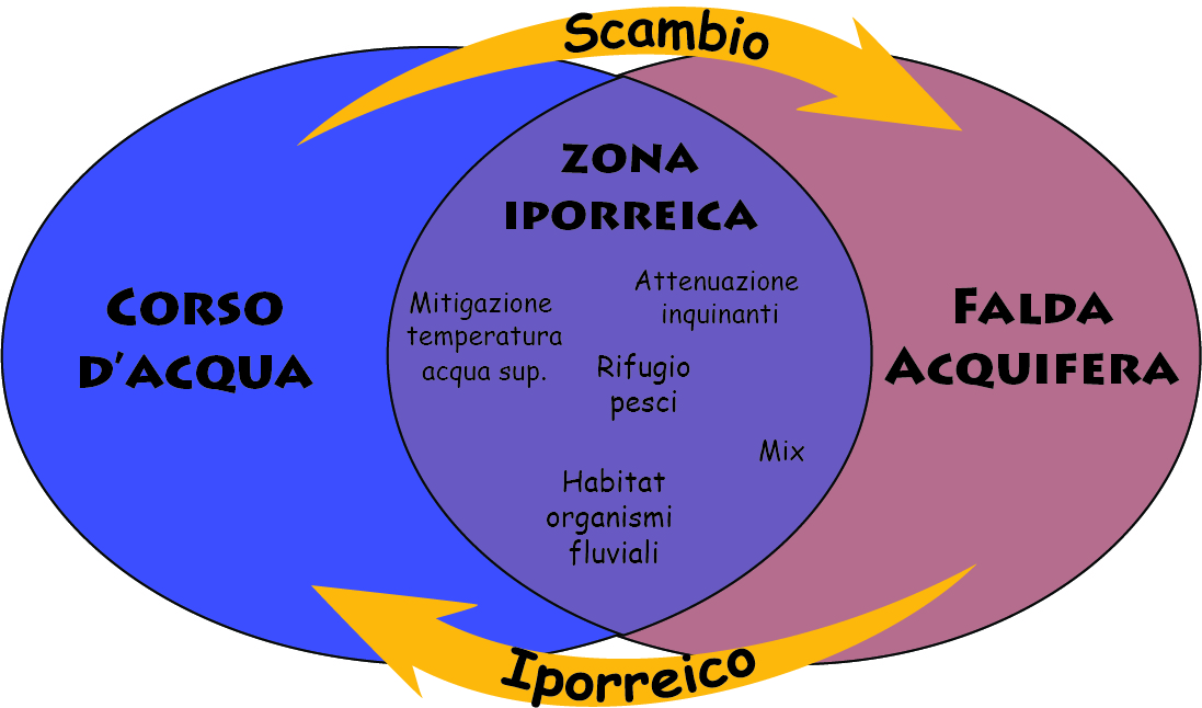 Principali meccanismi zona iporreica